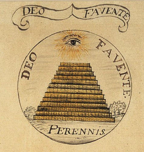 The reverse side of William Barton's design for the Great Seal of the United States, done as part of the third committee's attempt for a design. This was eventually used as the reverse side of the final seal, although with changed mottos. The pyramid came from an earlier Continental currency note by Francis Hopkinson. Barton originally put a palm tree on top (the symbolism being "The Palm Tree, when burnt down to the very Root, naturally rises fairer than ever"), but changed his mind. The Eye of Providence was an element from the design of the first committee six years earlier. Barton's full blazon was:[1] A Pyramid of thirteen Strata, (or Steps) Or, and, on the Summit of it a Palm Tree, proper. In the Zenith, an Eye, surrounded with a Glory, proper. In a Scroll, above, or in the Margin – Deo Favente. ("With God's Favor" or "God Favoring") The Exergue – Perennis. ("Everlasting")